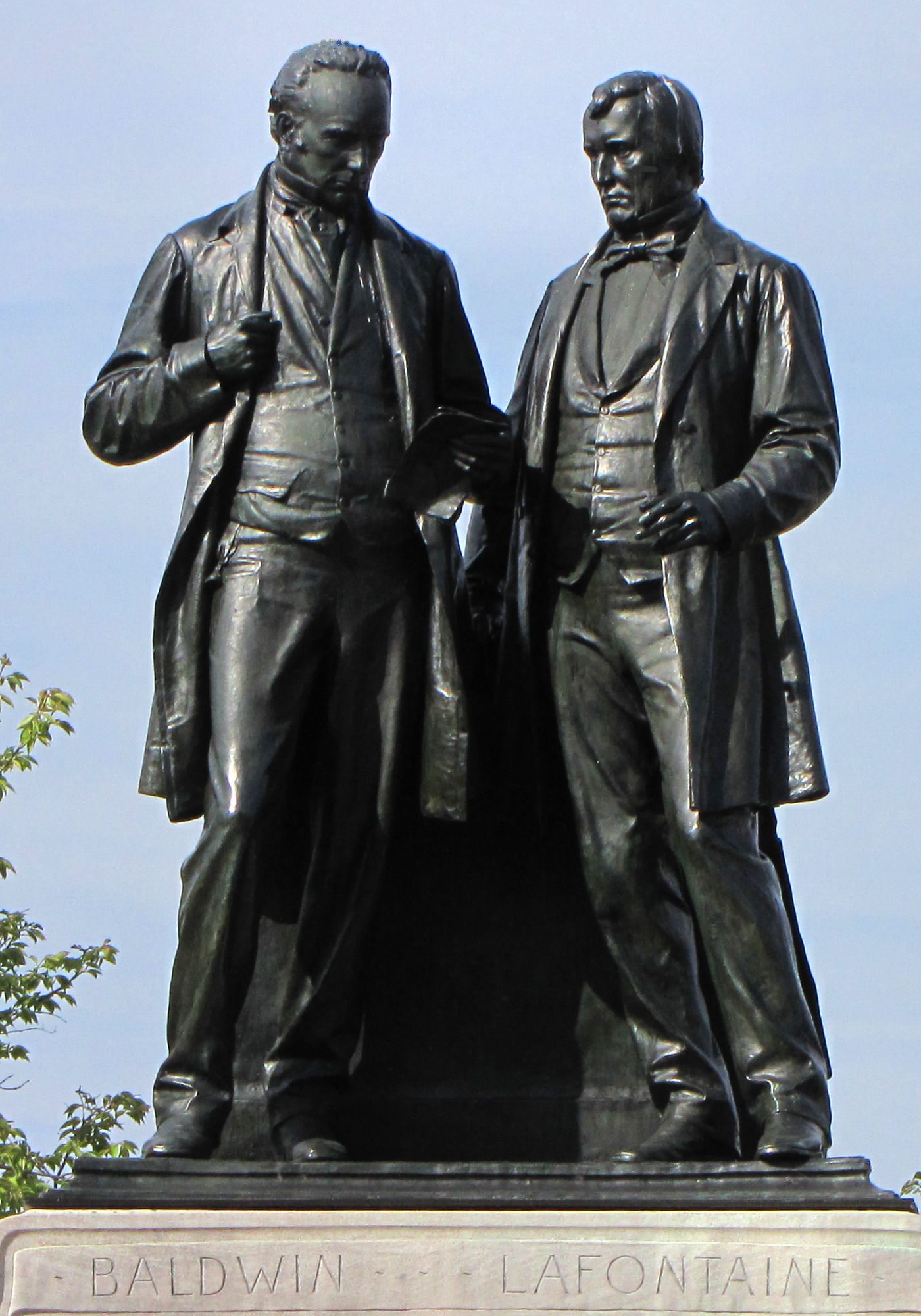 Statue of Robert Baldwin and Louis-Hippolyte Lafontaine by Walter Seymour Allward, Parliament Hill, Ottawa, Ontario, Canada